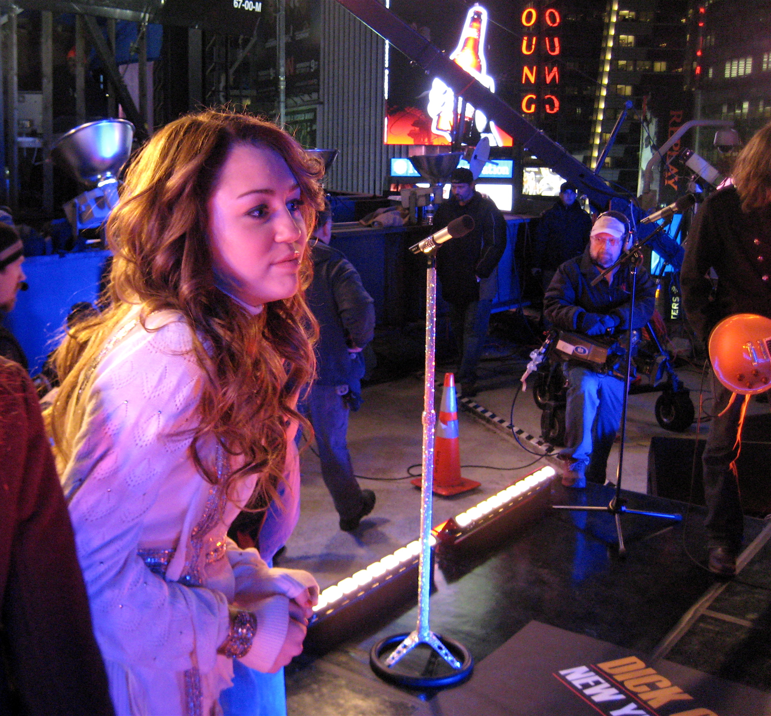 Miley tries to get warm - 5 minutes before taping. Hannah Montana "Best of Both Worlds" Tour 07/08